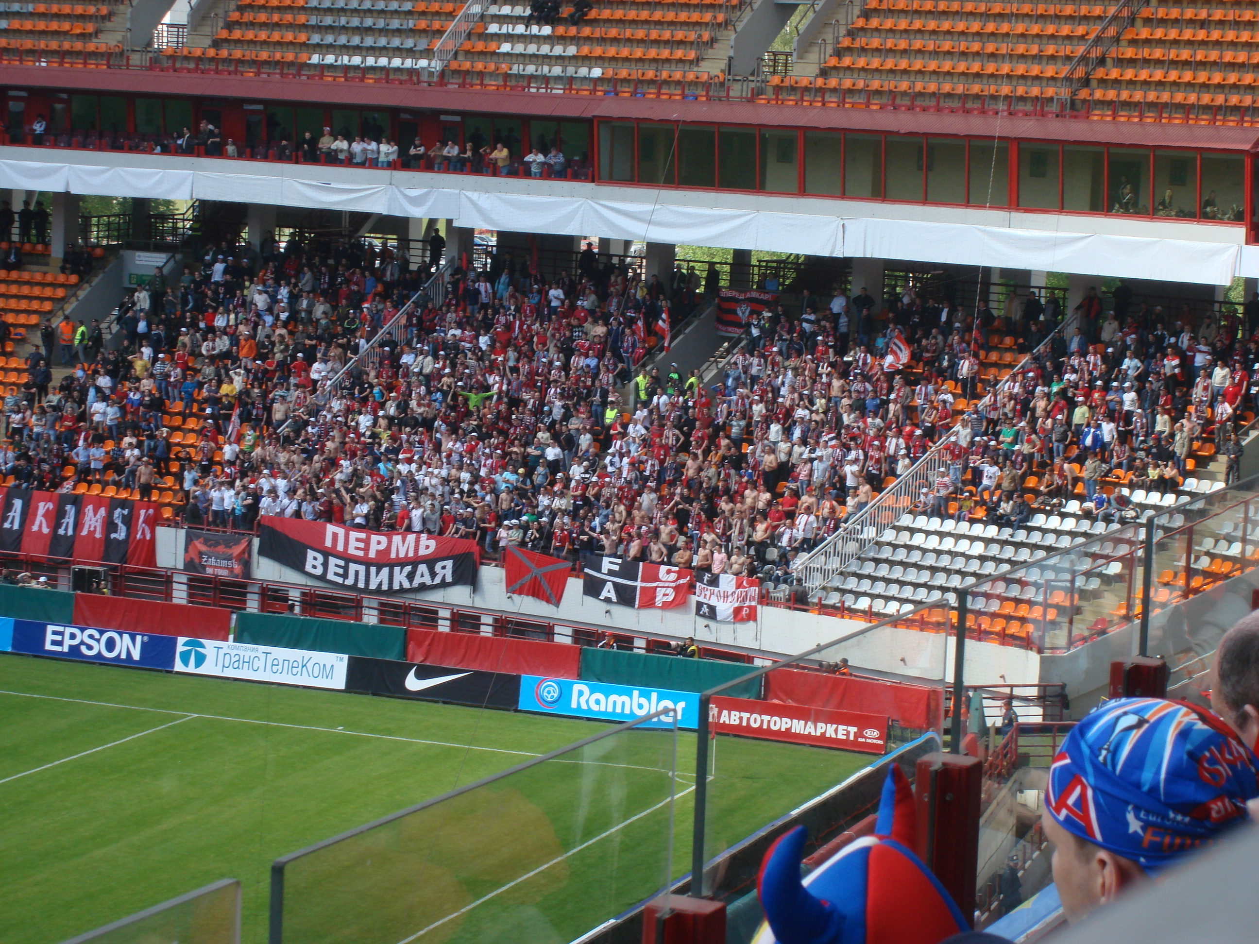 Supporters of FC Amkar Perm